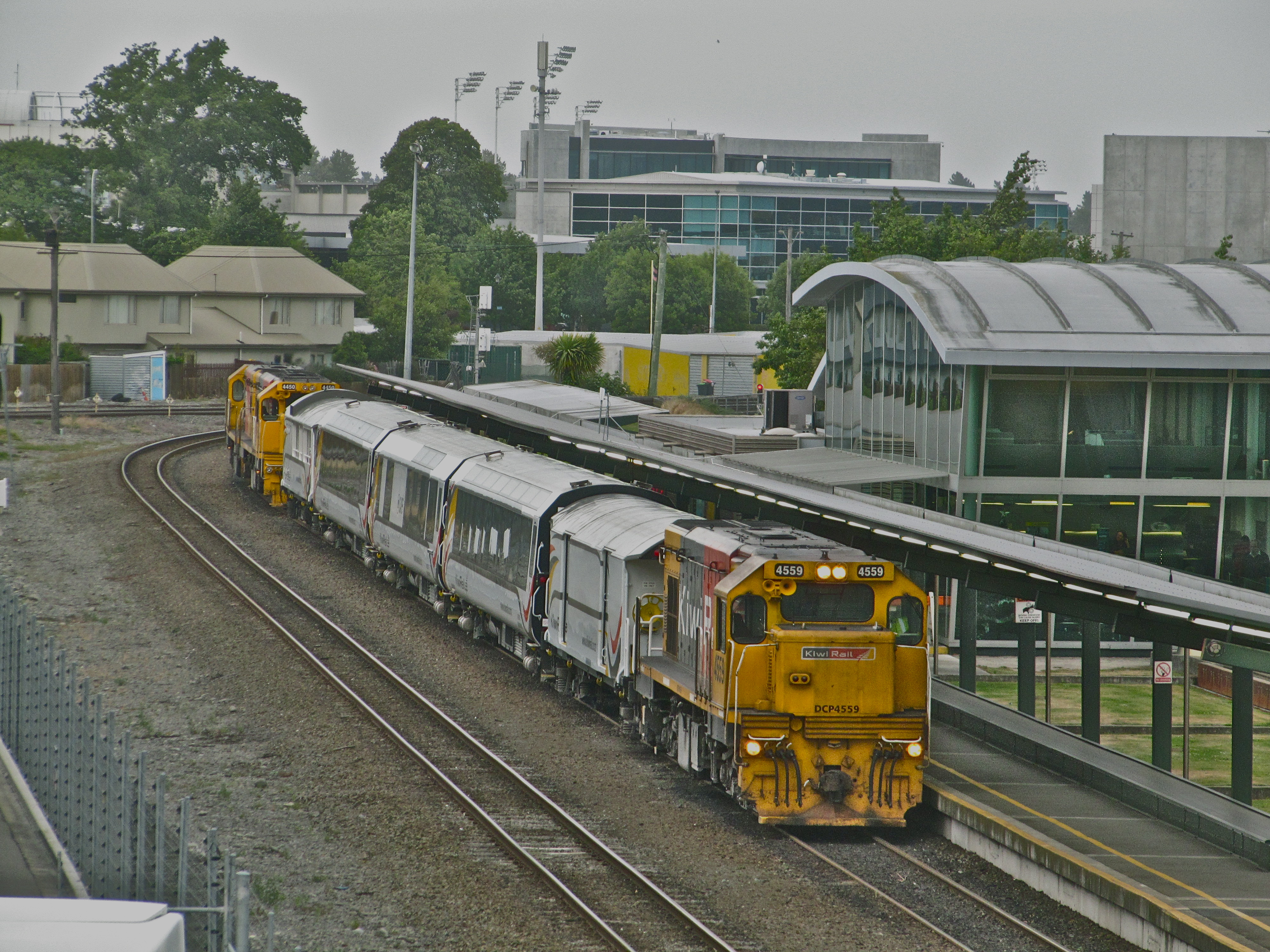 with new AK cars.